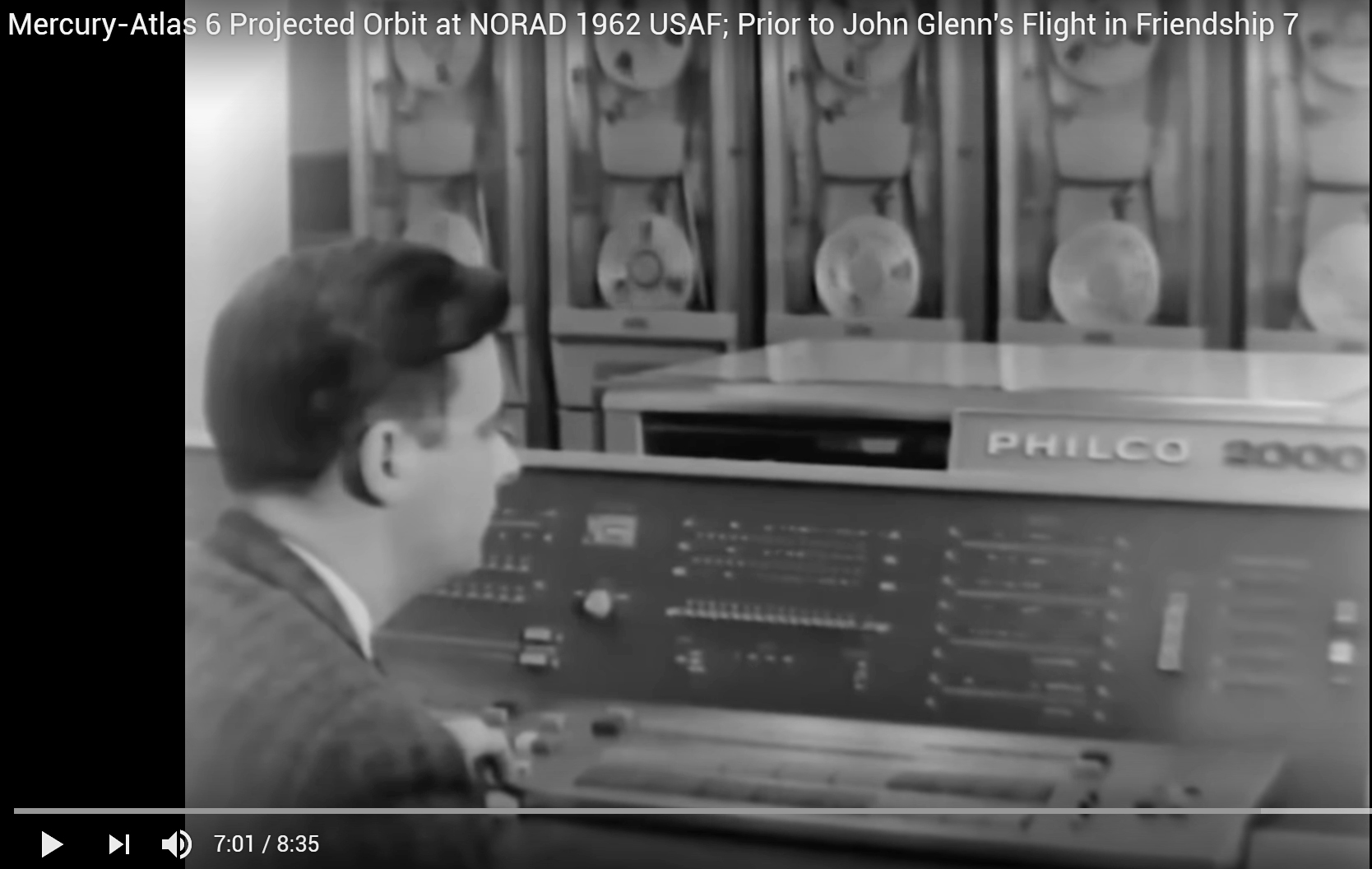 Philco 2000 computer, circa 1961